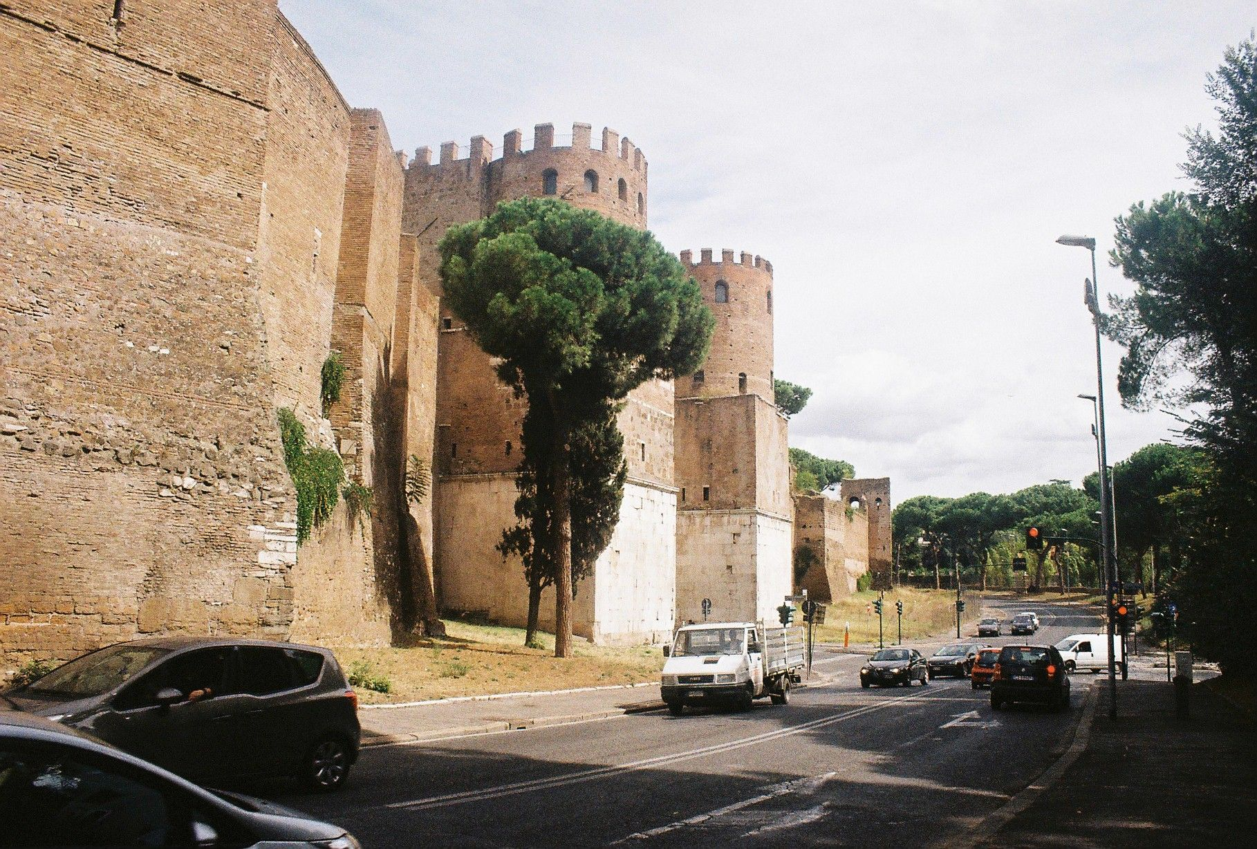 Porta San Sebastiano, Rome, Via Appia